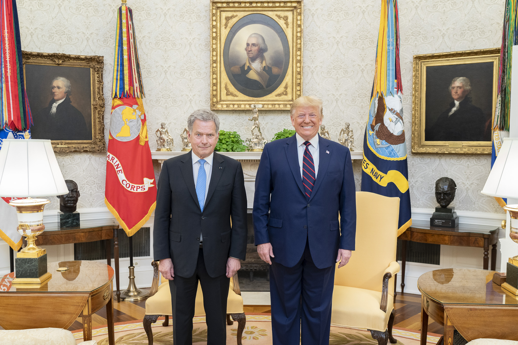 President Donald J. Trump meets with Finnish President Sauli Niinistö Wednesday, Oct. 2, 2019, in the Oval Office of the White House. (Official White House Photo by Shealah Craighead)